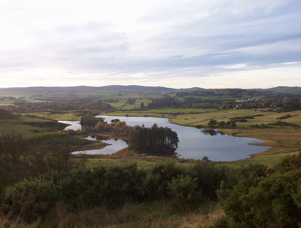 The Knapps Loch, Kilmacolm, Renfrewshire with some of Kilmacolm shown in the upper right hand side. Taken by myself, summer 2006. I release this freely.